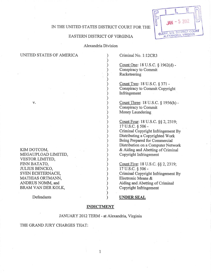 A copy of the legal indictment used to pursue arrests of the suspects in the Megaupload article. Gizmodo: "Feds Kill Megaupload" embed the image in "update 5" at this Scribd url. It links to another page they call Mega Indictment which is the alleged source. It is attributed to the Alexandria Division of the United States District Court for the Eastern District of Virginia. The indictment has also been put online by the LA Times and by the Wall Street Journal.